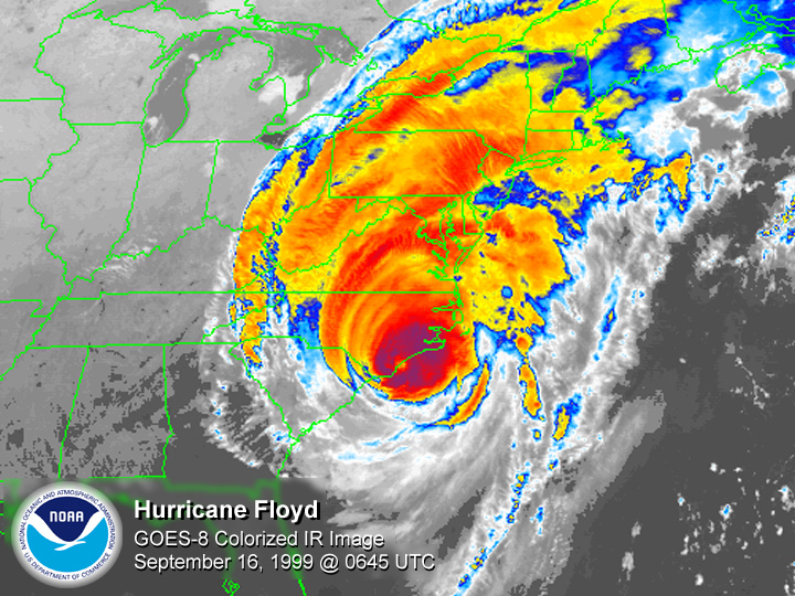 GOES 8 satellite colored infrared image of Hurricane Floyd making landfall at Cape Fear, North Carolina